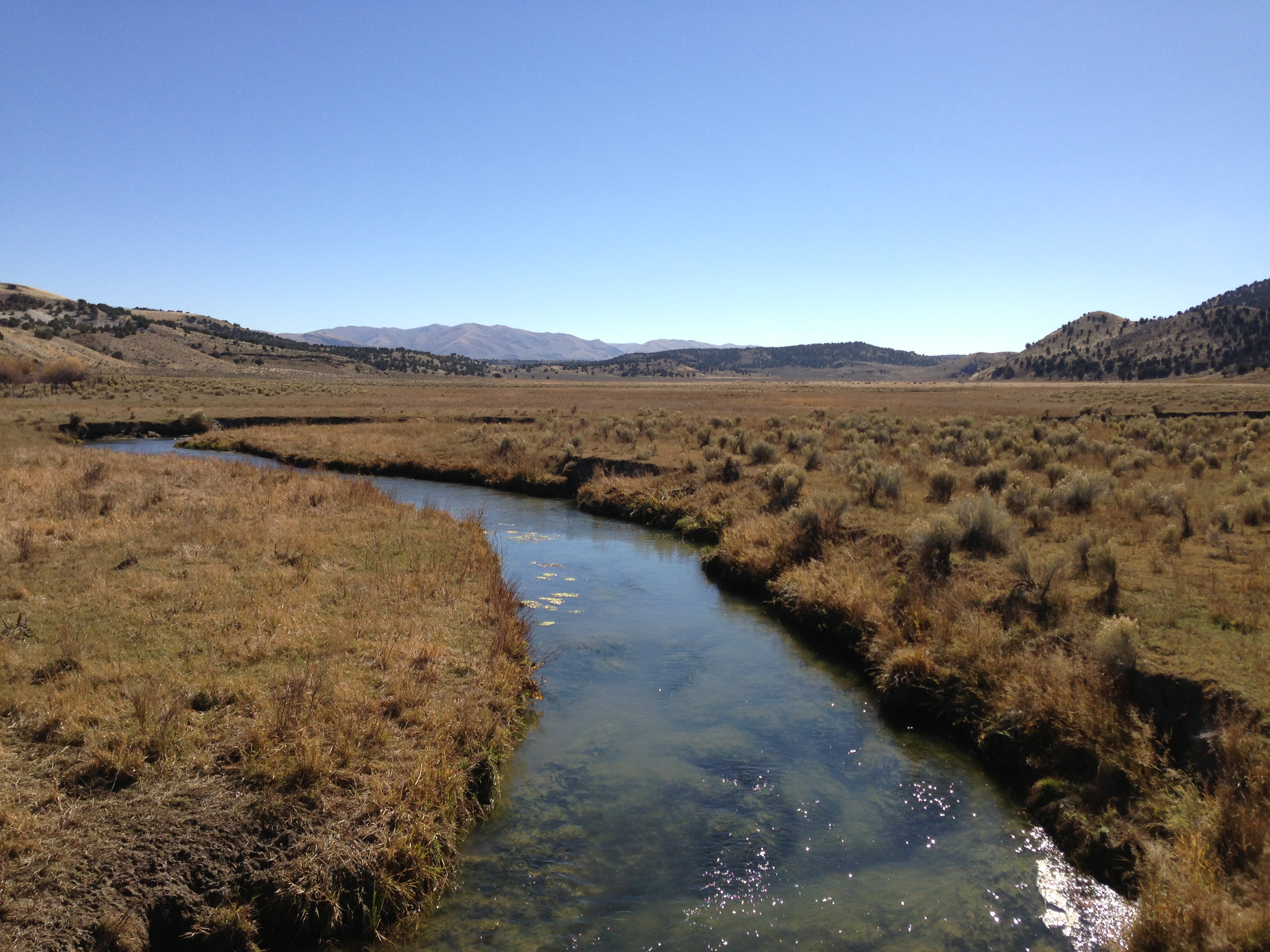 View southwest up Goose Creek from Goose Creek Road (Elko County Route 762) about 16.8 miles east of Little Goose Creek in Elko County, Nevada